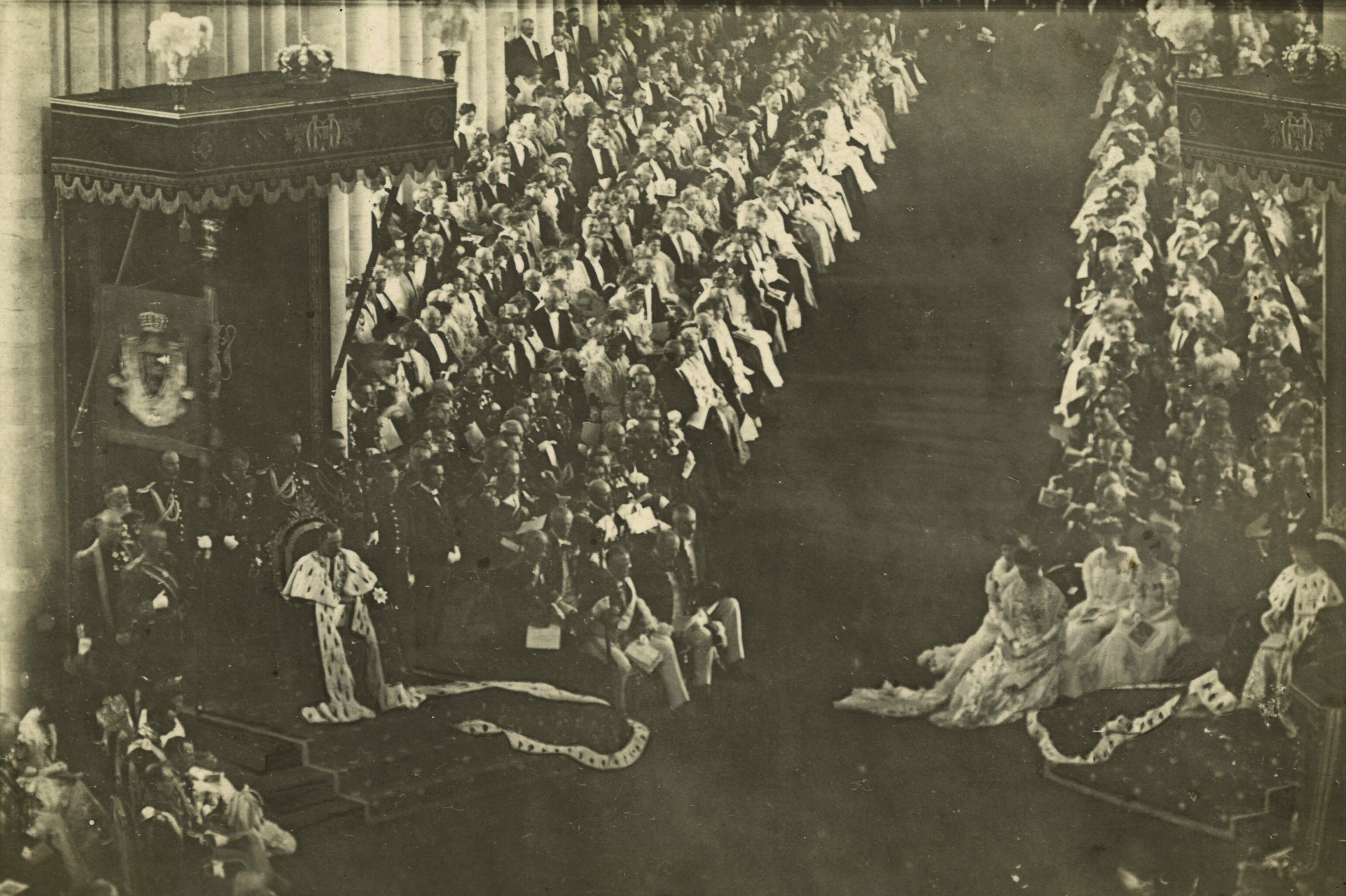 Format: Fotopositiv (Postkort) Dato / Date: 1906 Fotograf / Photographer: Ukjent (utgitt av Aktieselskabet Norsk Kunst) Sted / Place: Nidarosdomen, Trondheim Eier / Owner Institution: Trondheim byarkiv, The Municipal Archives of Trondheim Arkivreferanse / Archive reference: Tor.H4x.Bxx.Fxxxx